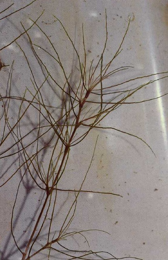 Najas guadalupensis from Robert H. Mohlenbrock. USDA NRCS. 1992. Western wetland flora: Field office guide to plant species. West Region, Sacramento. Courtesy of USDA NRCS Wetland Science Institute.